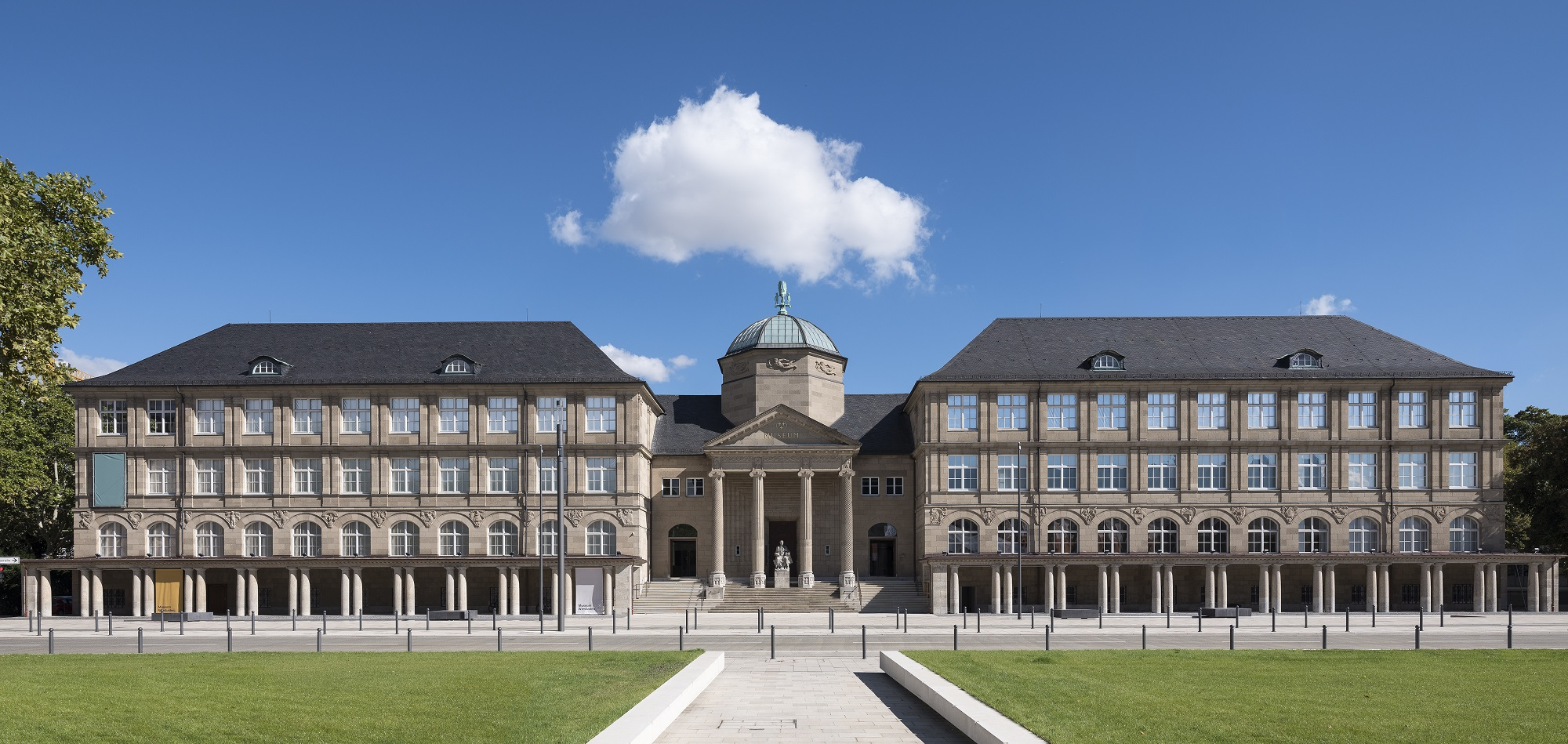 Museum Wiesbaden 2019